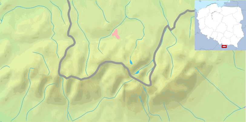 Map of the Tatra Mountains